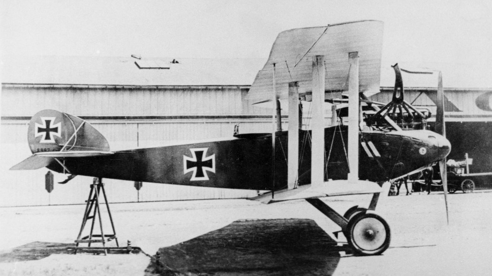 AGO C.IV on trestle